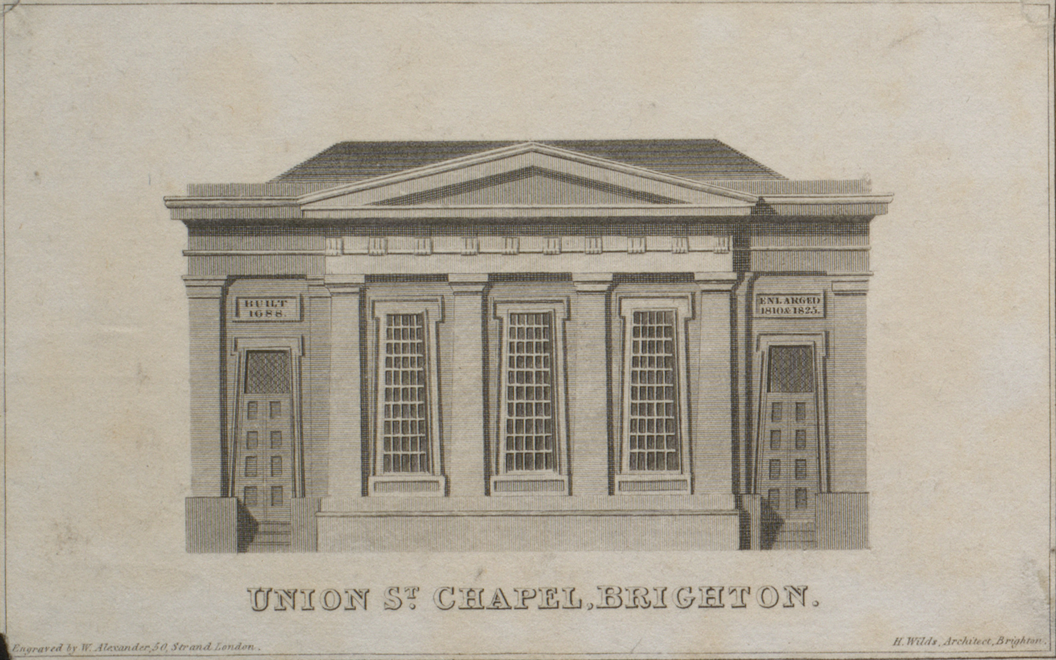 Front view engraving of Union Chapel, Brighton in post-1823 arrangement. Stonework reads "Built 1688." (left), and "Enlarged 1810 & 1823." (right). Text below reads "Engraved by W. Alexander, 50, Strand, London." (bottom left) and "H. Wilds, Architect, Brighton." (bottom right).